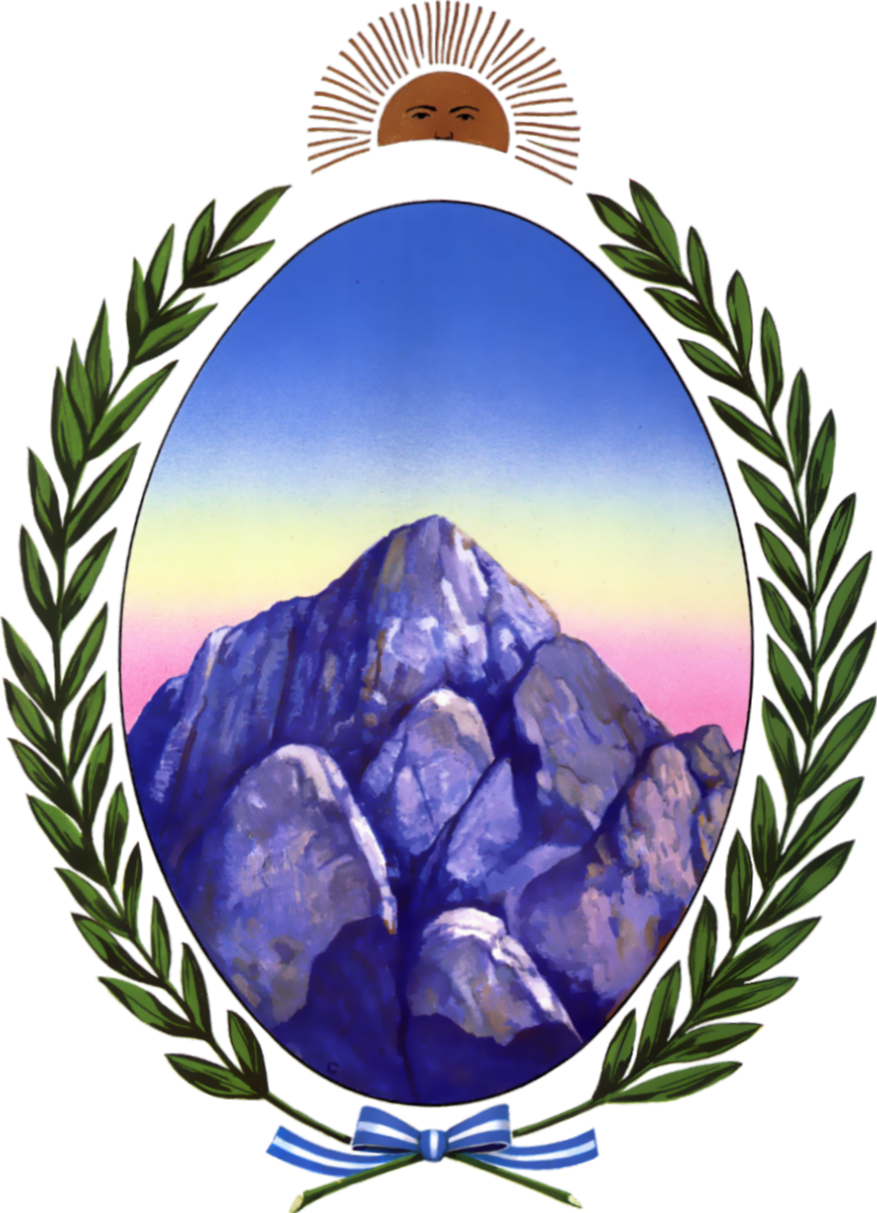 Coat of arms of the La Rioja Province, Argentina.